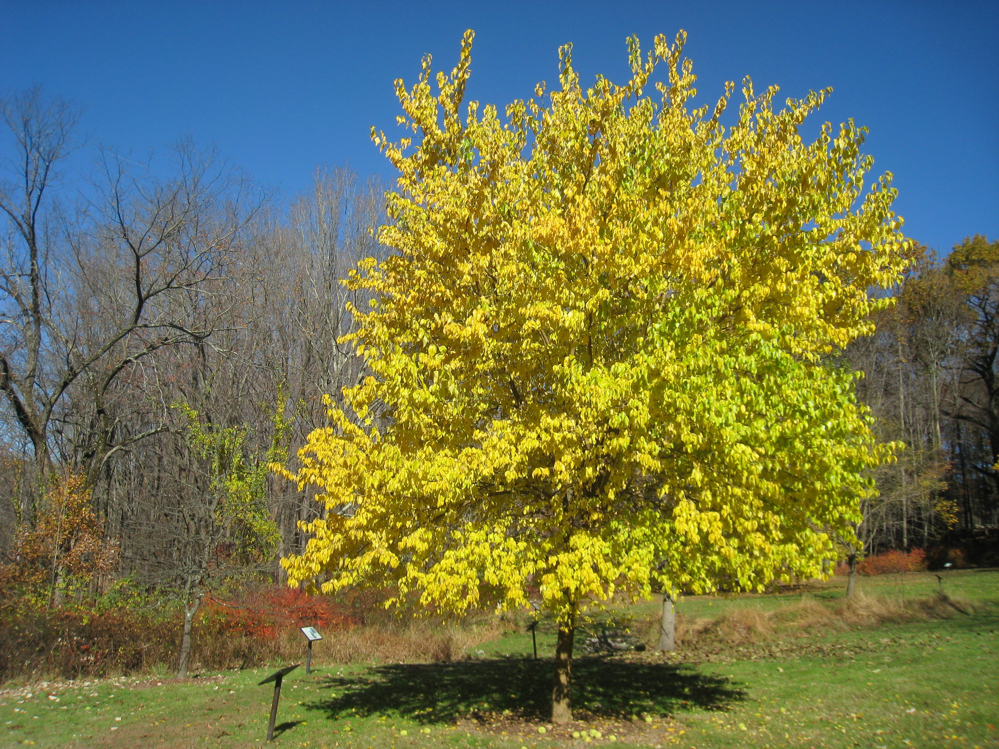 Maclura pomifera specimen in Lasdon Park and Arboretum, Somers, New York, USA.